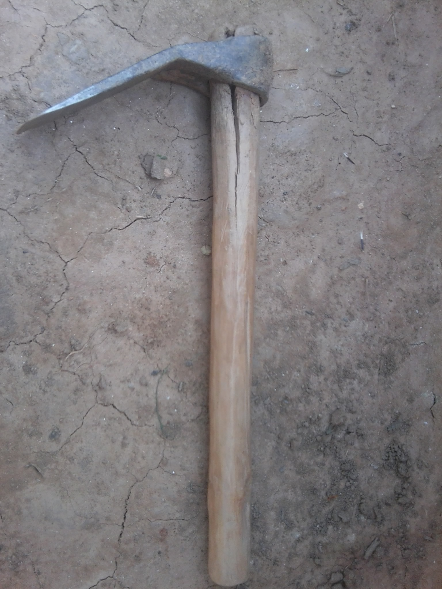 An agricultural tool used in Nepal.